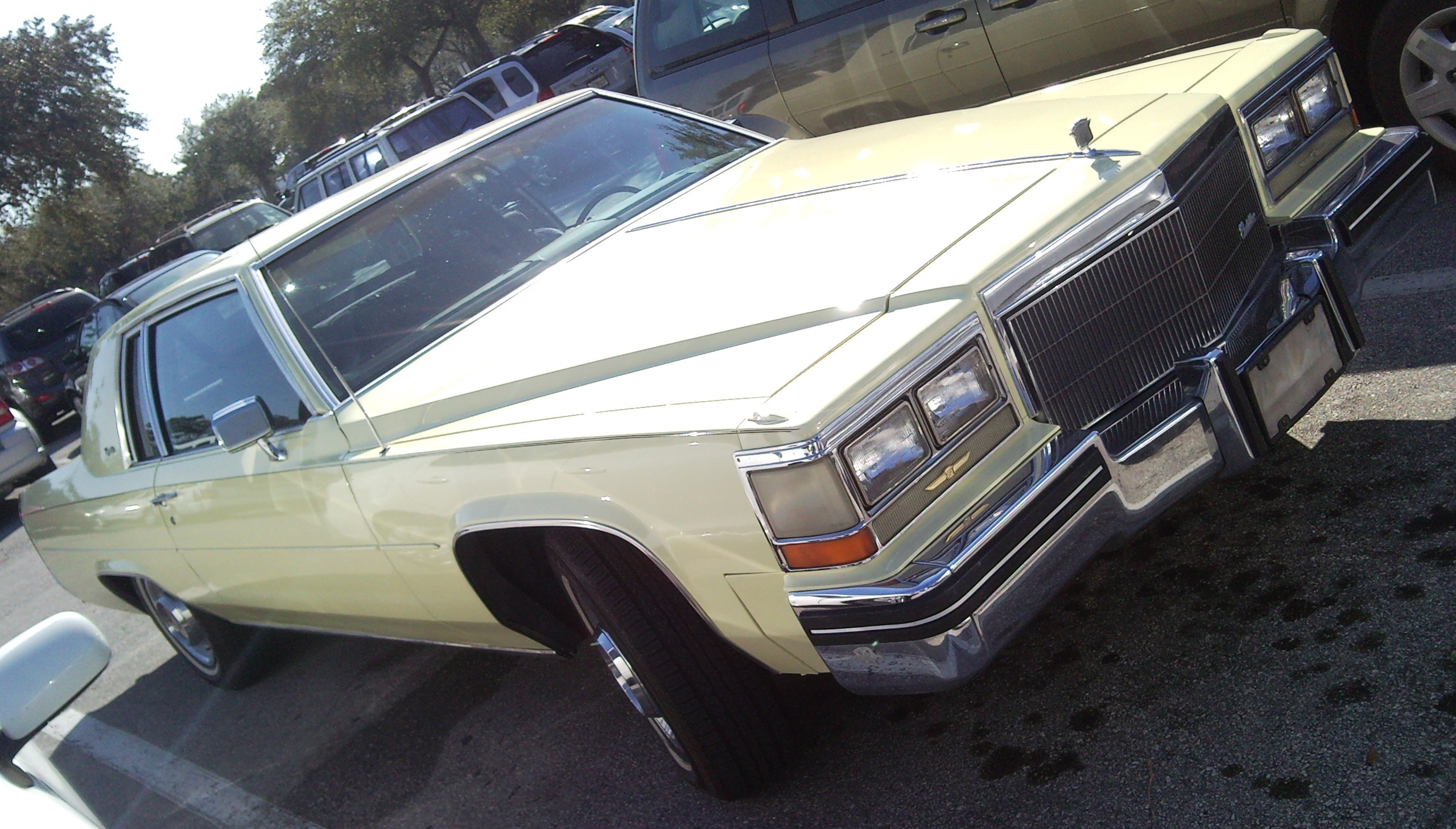 1983 Cadillac Coupe De Ville photographed in Orlando, Florida, USA.